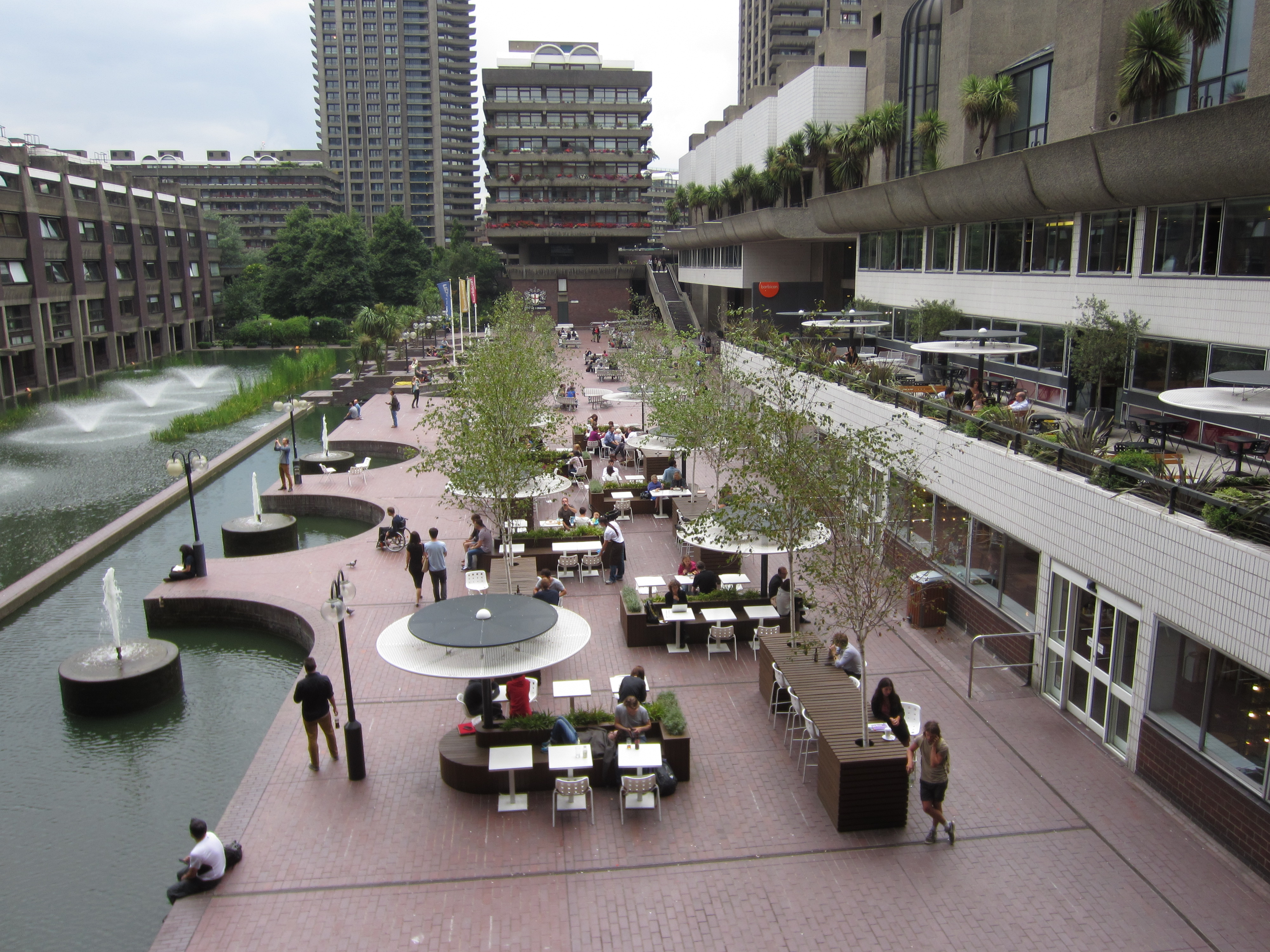 Barbican Arts Centre, London (2014)